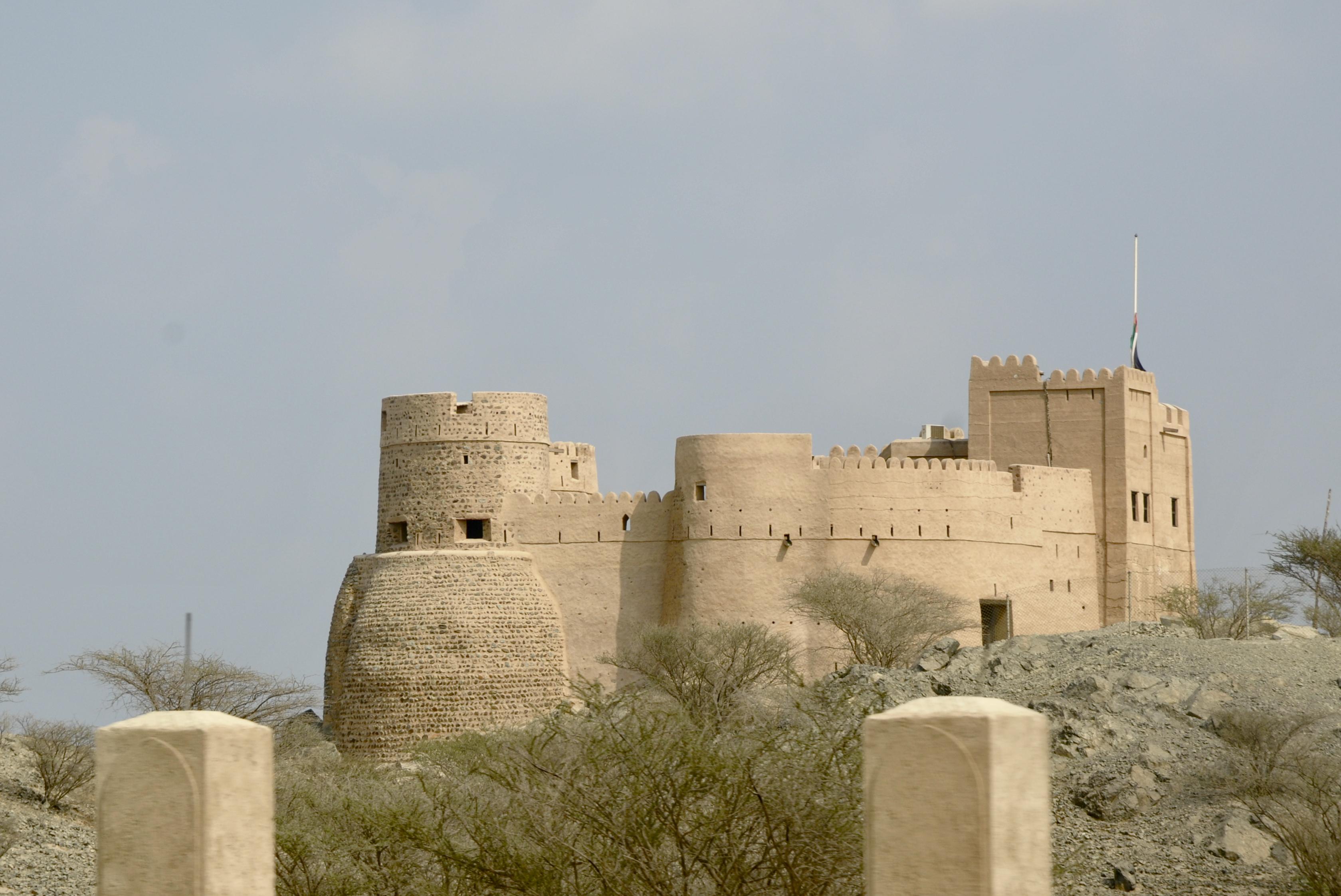 Fujairah Fort (not Bithnah in Wadi Ham), Fujairah City, Fujairah, UAE, after restauration.